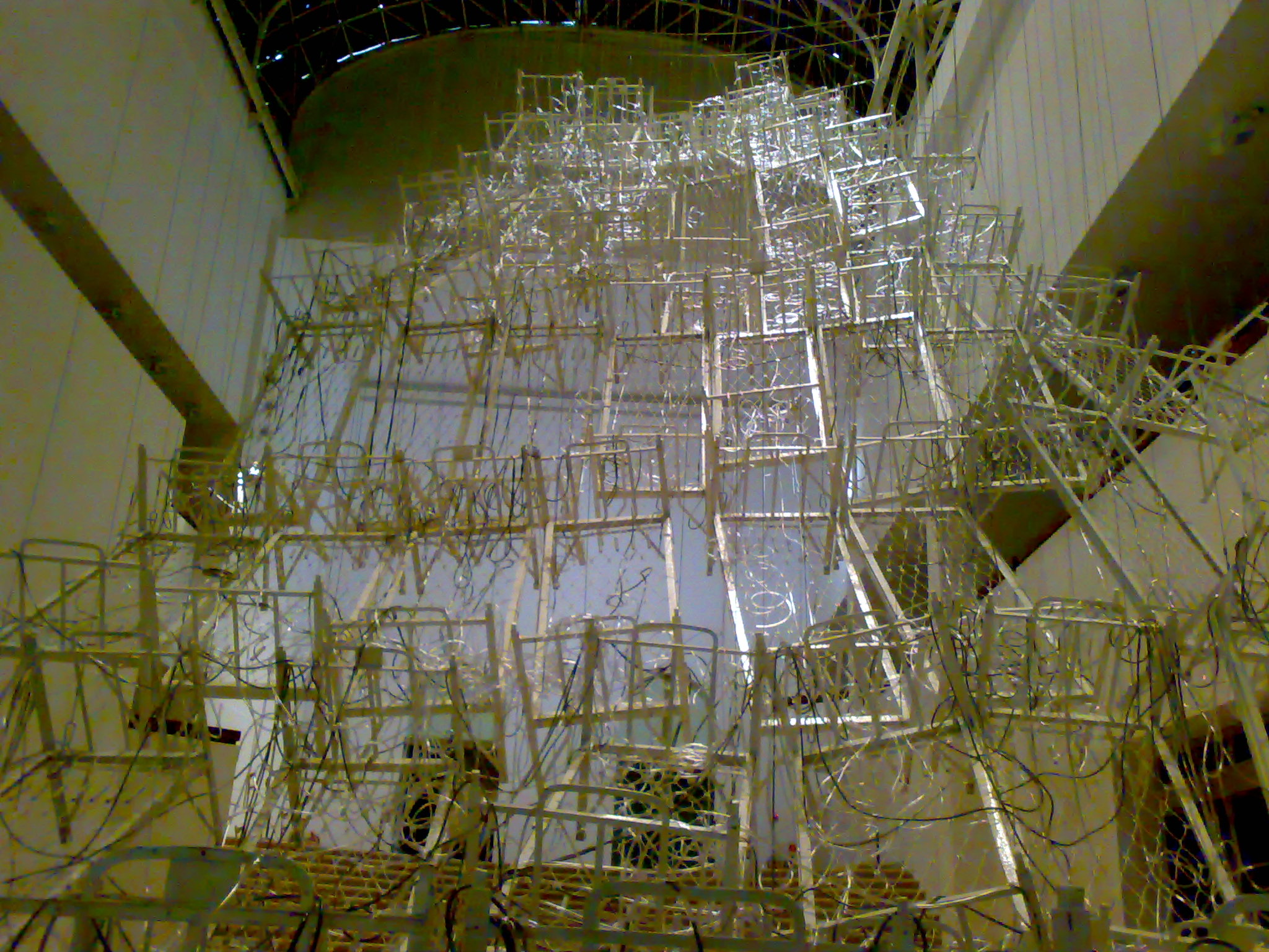 Mediations Biennale Poznan 2010, National Museum in Poznan.